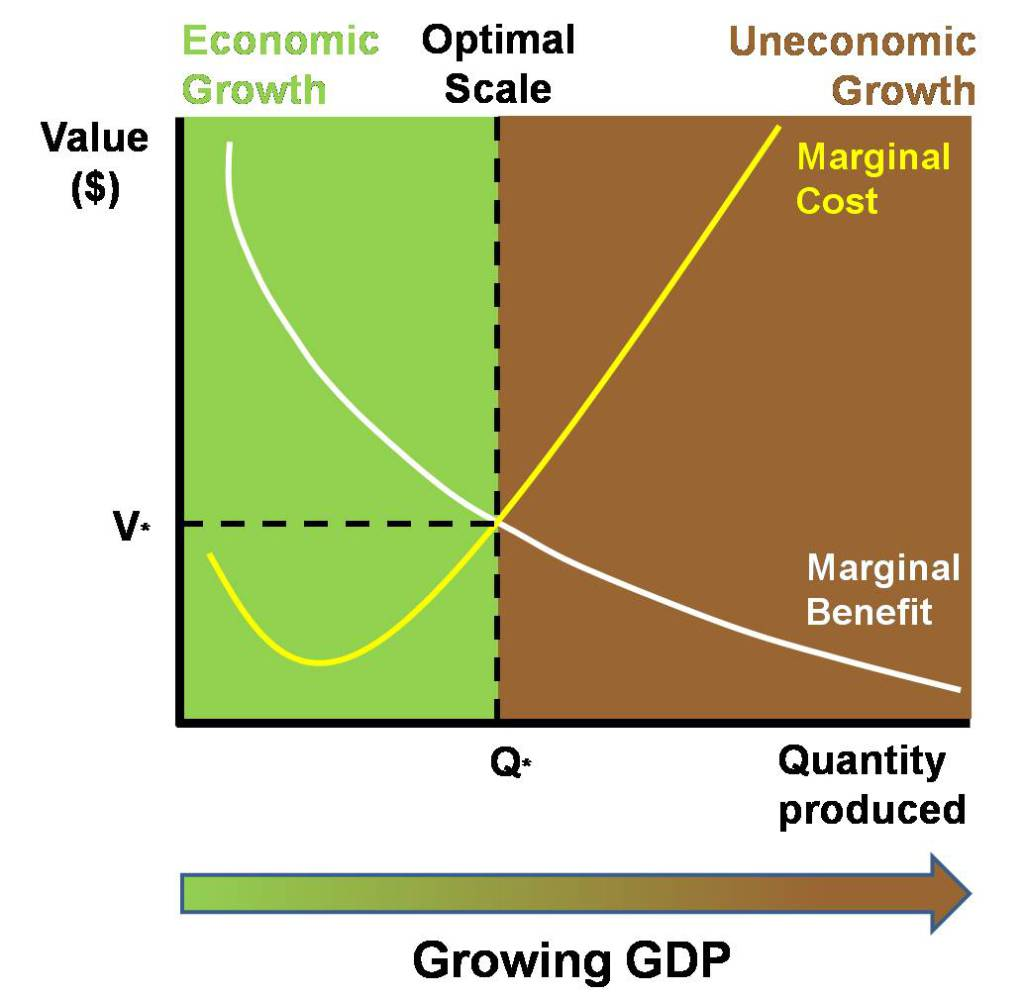 Diagram showing the marginal costs of a growing economy gradually exceeding the marginal benefits, eventually resulting in 'uneconomic growth'. The optimal scale of the economy Q* is where costs equal benefits at V*, marking the divide between the 'economic' green part of the diagram to the left and the 'uneconomic' brown part to the right.